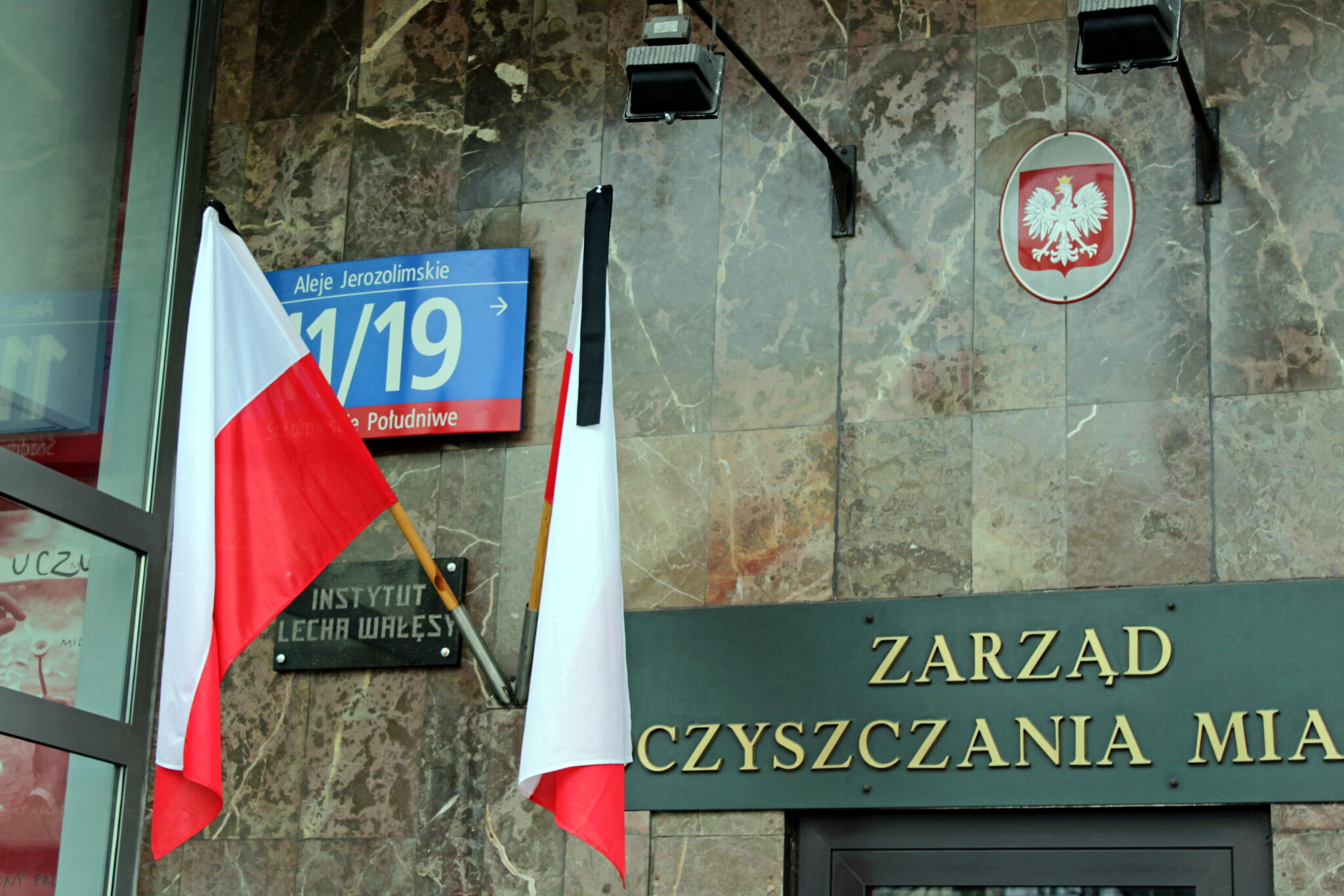 Wer dieses Bild benutzen möchte, der möge bitte den Link auf seiner Seite einbinden. If you want to use this picture, please implement the link on the website containing the picture.